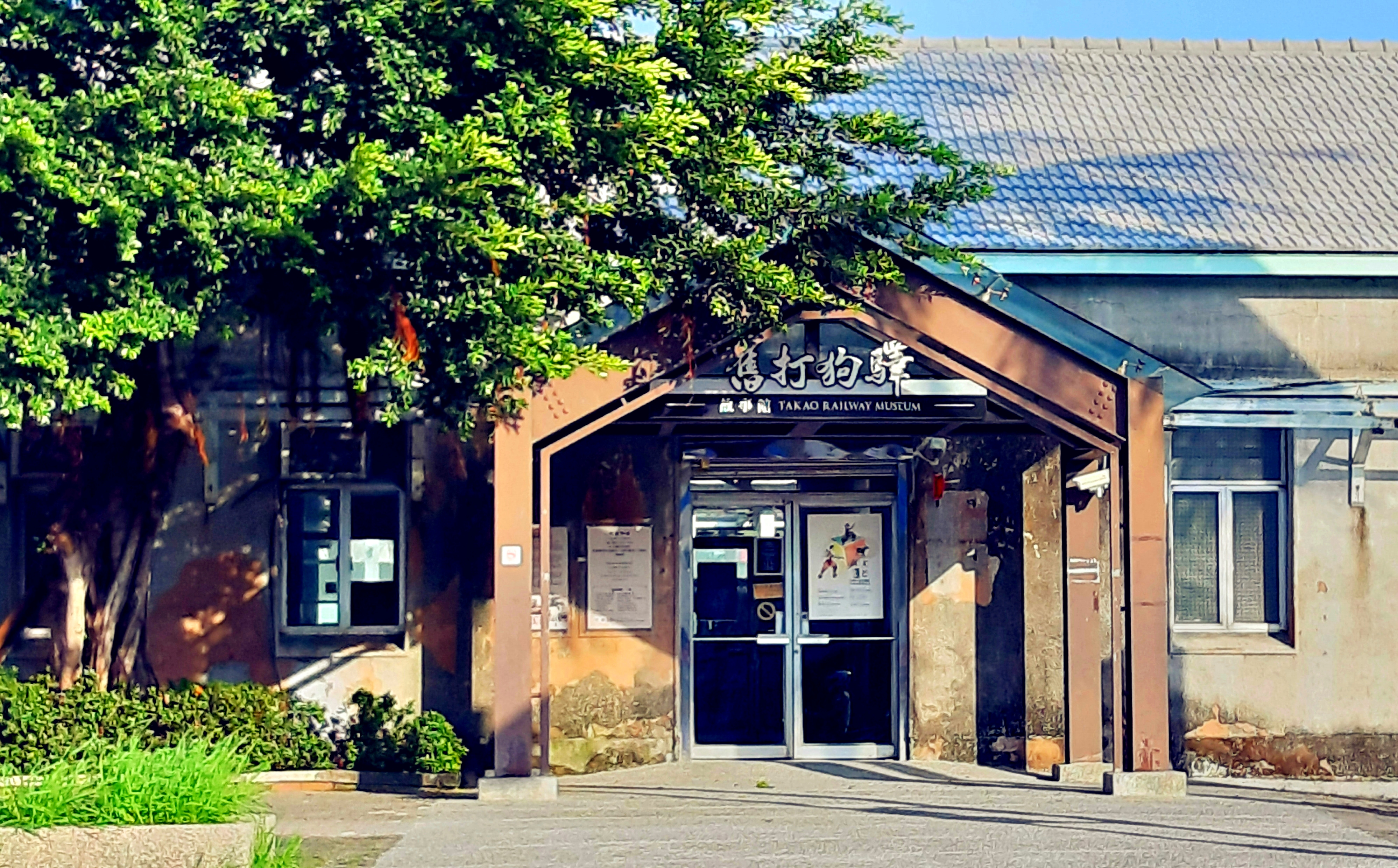 Being not only the terminal station of the North–South Railway between Keelung and Dagou during the Japanese colonial period and the very first train station at Dagou, but also a cargo transportation hub and an important base for trade and commerce in southern Taiwan, this station was declared a historical building by Kaohsiung City Government in 2003. In response to public expectation and to incorporate the elements of railway culture for overall development, the Bureau of Cultural Affairs obtained the consent of the Taiwan Railways Administration to sponsor the main station buildings and land at the southern side of the station in September 2010 for the establishment of the Dagou Railway Museum, which was opened on October 24, 2010 in celebration of the 102nd anniversary of the North-South Railway. It was a profound demonstration of repurposing and conservation of our cultural heritage. The station office was preserved in its original appearance to reproduce its glory in the 1960s. Moreover, railway-related works are available for reading while railway relics are exhibited.